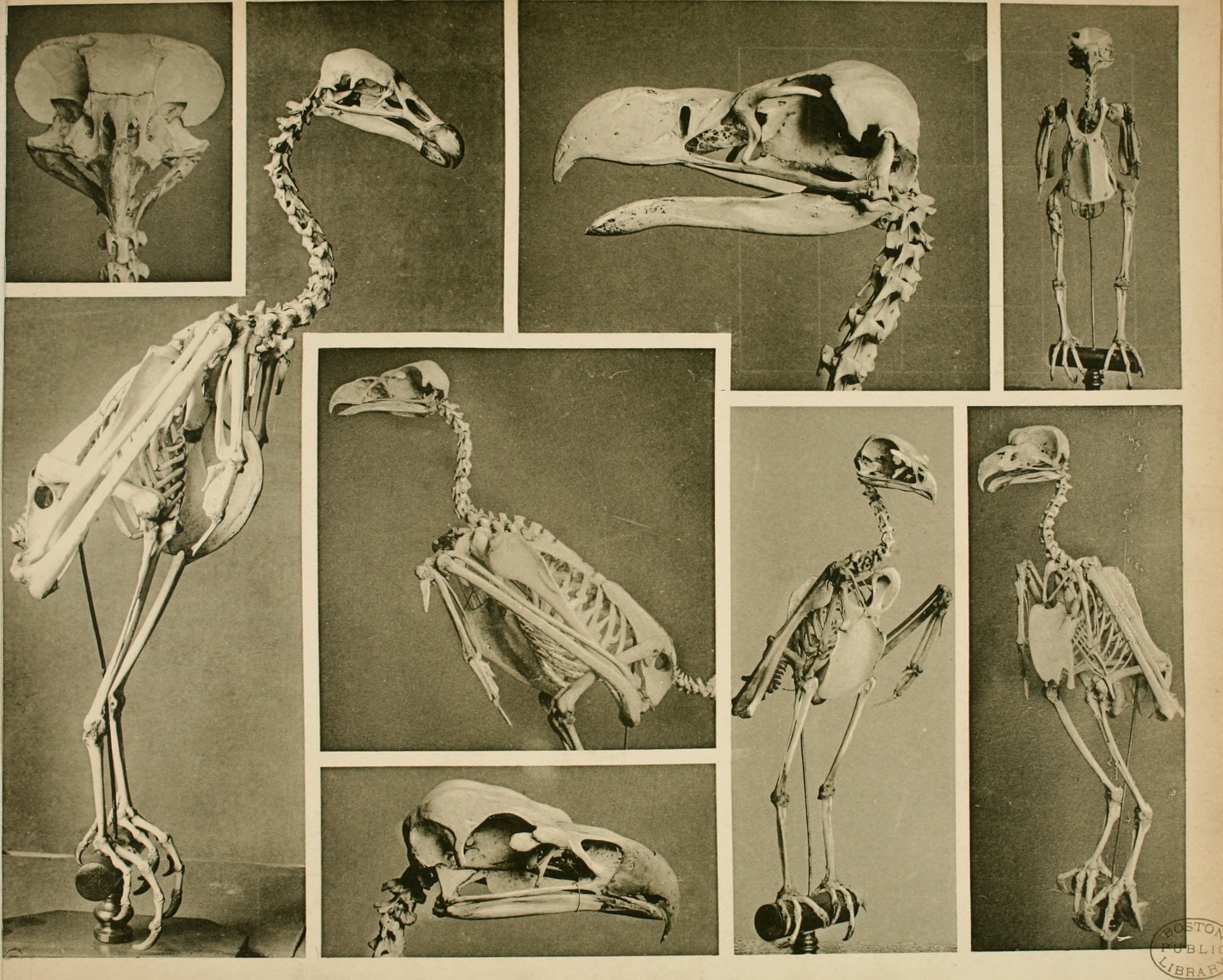 Title: Das thierleben in Schönbrunn Year: 1904 (1900s) Authors: Schuster, Anton Karl; Gerlanch, Martin, ed; Schönbrunn (Castle) Menagerie Subjects: Animals Publisher: Wien : Gerlach Text Appearing Before Image: ' Text Appearing After Image: '